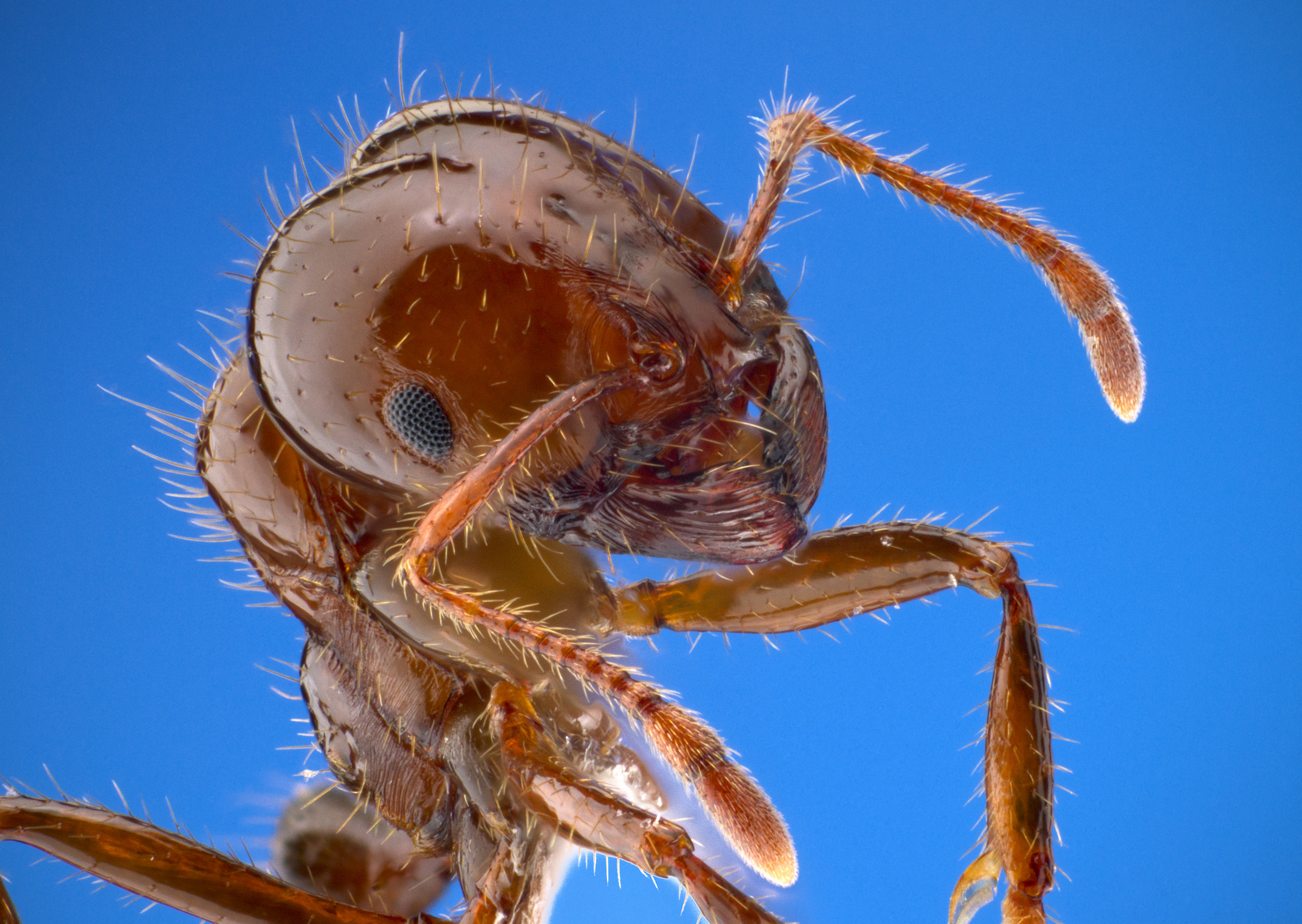 Portrait of a red imported fire ant, Solenopsis invicta. This species arrived to the southeastern United States from South America in the 1930s. Specimen from Brackenridge Field Laboratory, Austin, Texas, USA. Public domain image by Alex Wild, produced by the University of Texas "Insects Unlocked" program.